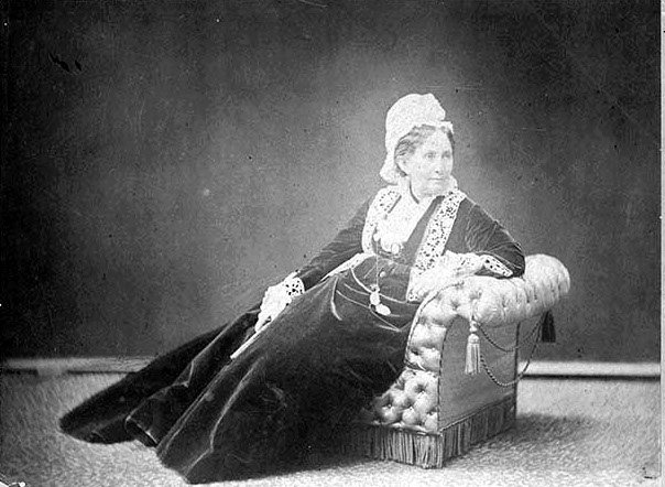 Fratelli D'Alessandri. Anne Hampton Brewster. Albumen photograph, ca. 1874. McAllister Collection.